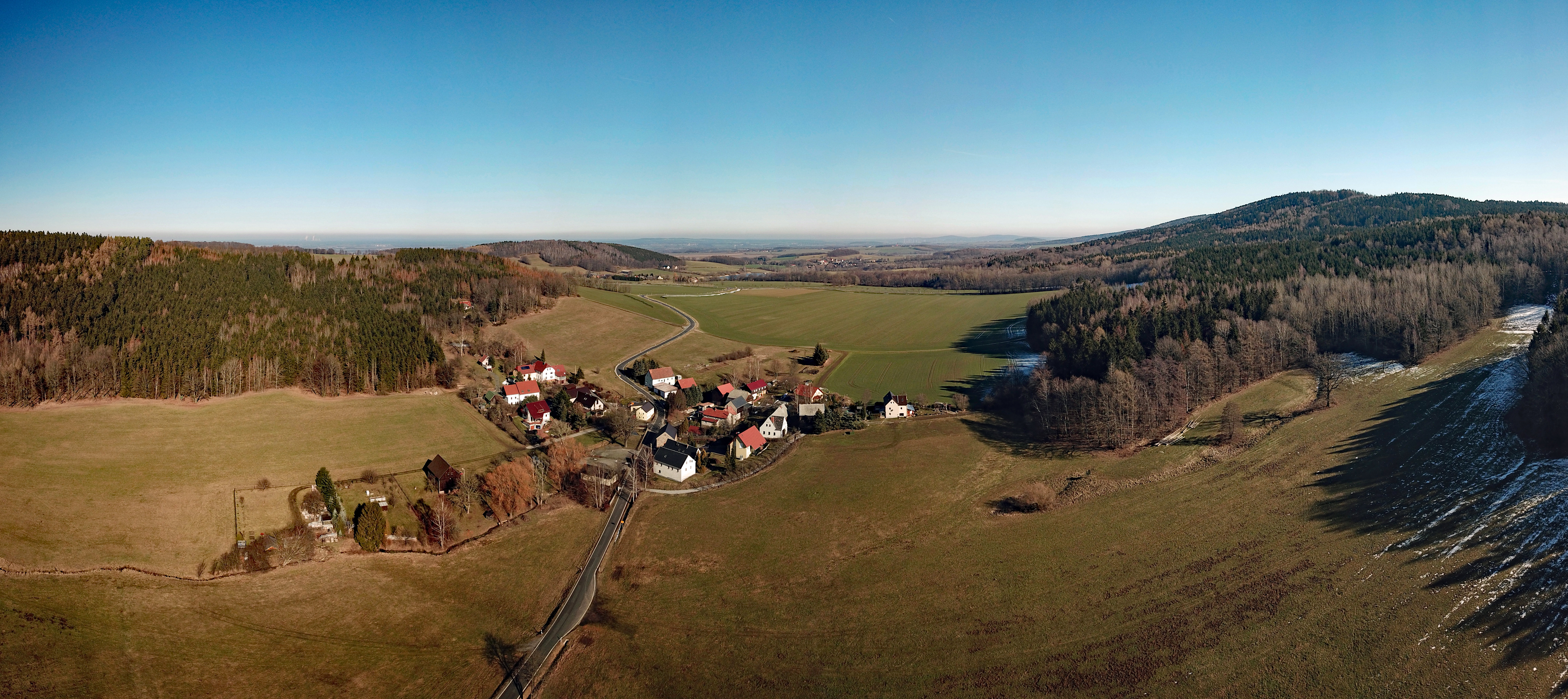 Großkunitz, Kubschütz, Saxony, Germany Hornjoserbsce: Powětrowy wobraz Chójnicy (gmejna Kubšicy)